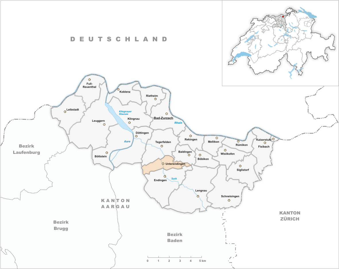 Municipality Unterendingen